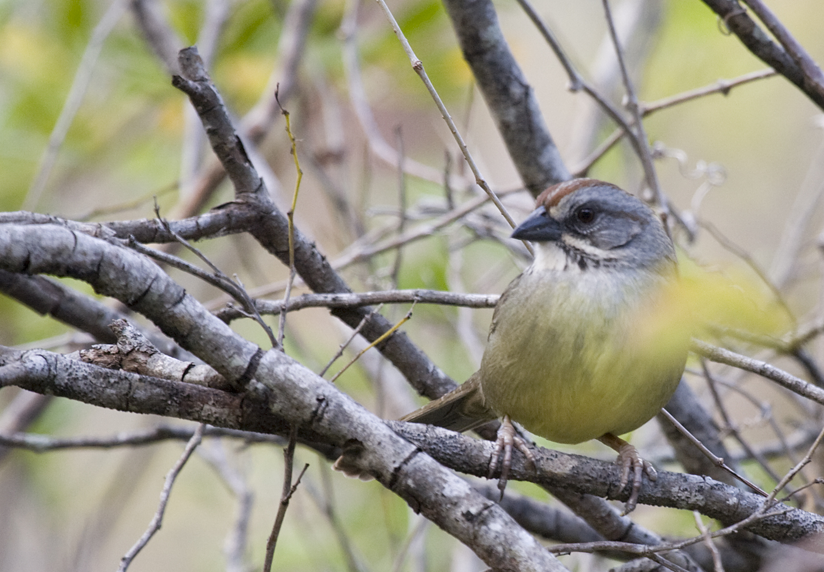 A Zapata Sparrow, Cayo Coco, Ciego de Avila Province, Cuba.